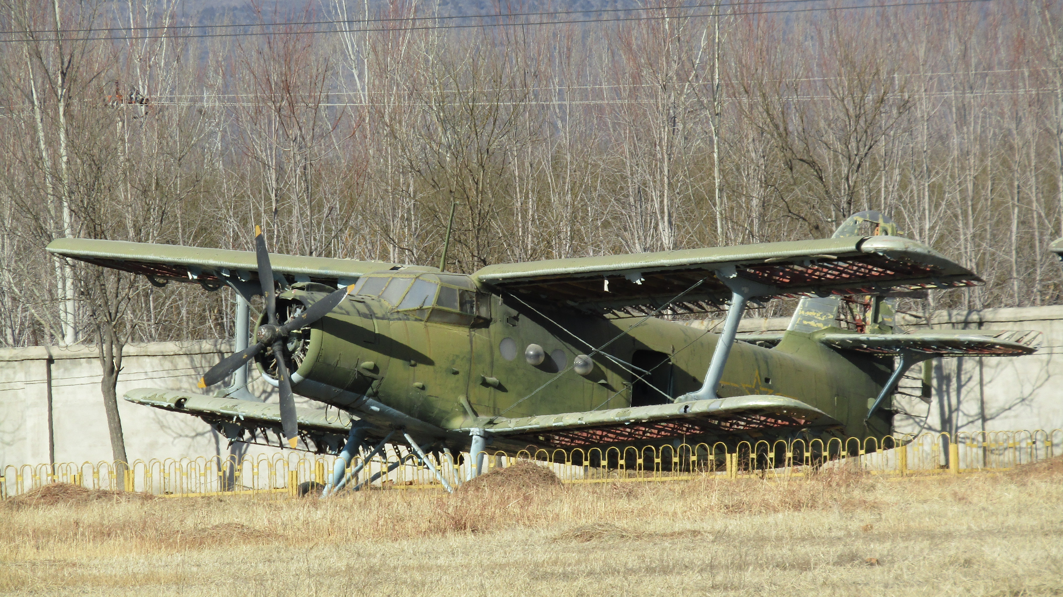 Nanchang Y-5 at China Aviation Museum, Beijing